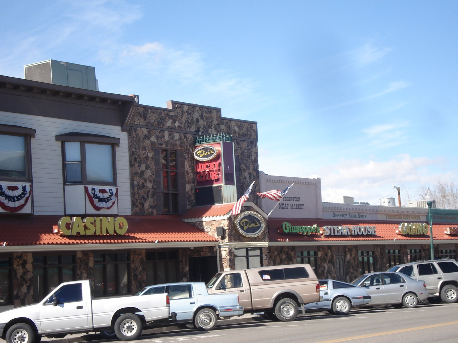 Outside of Dini's Lucky Club — in Yerington, western Nevada.